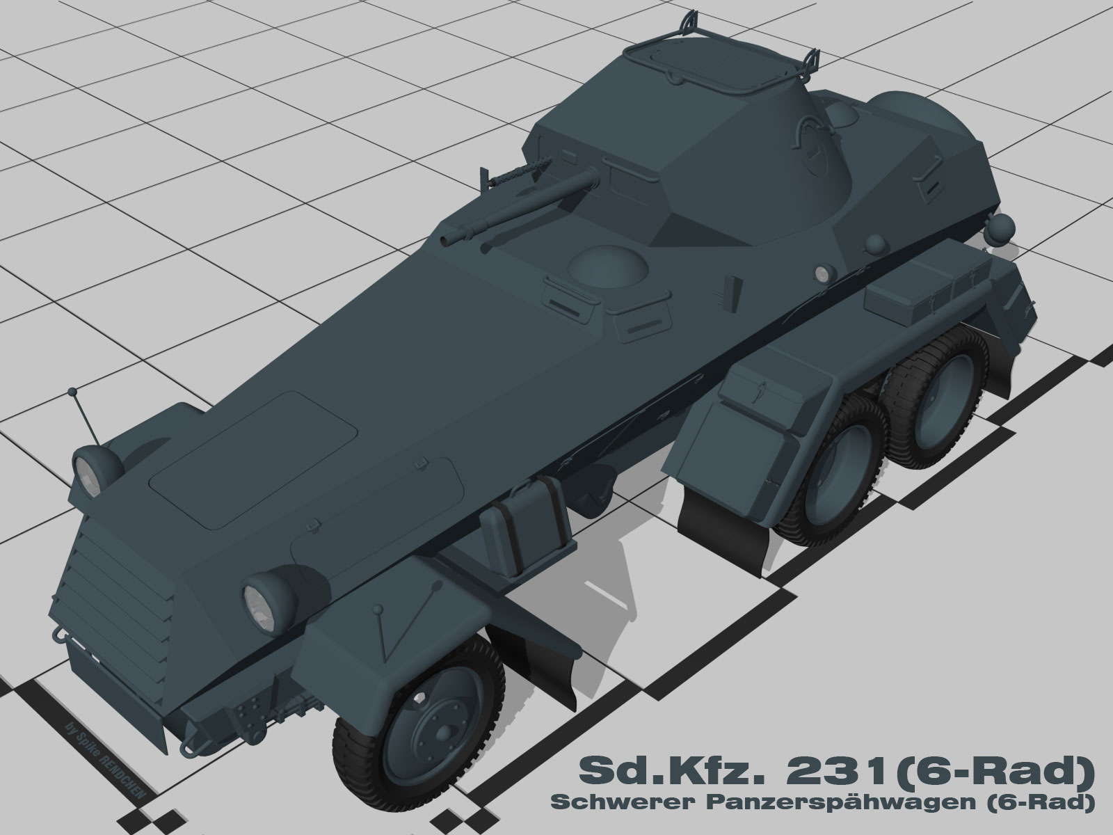 SdKfz 231 (6-Rad) - german AFV